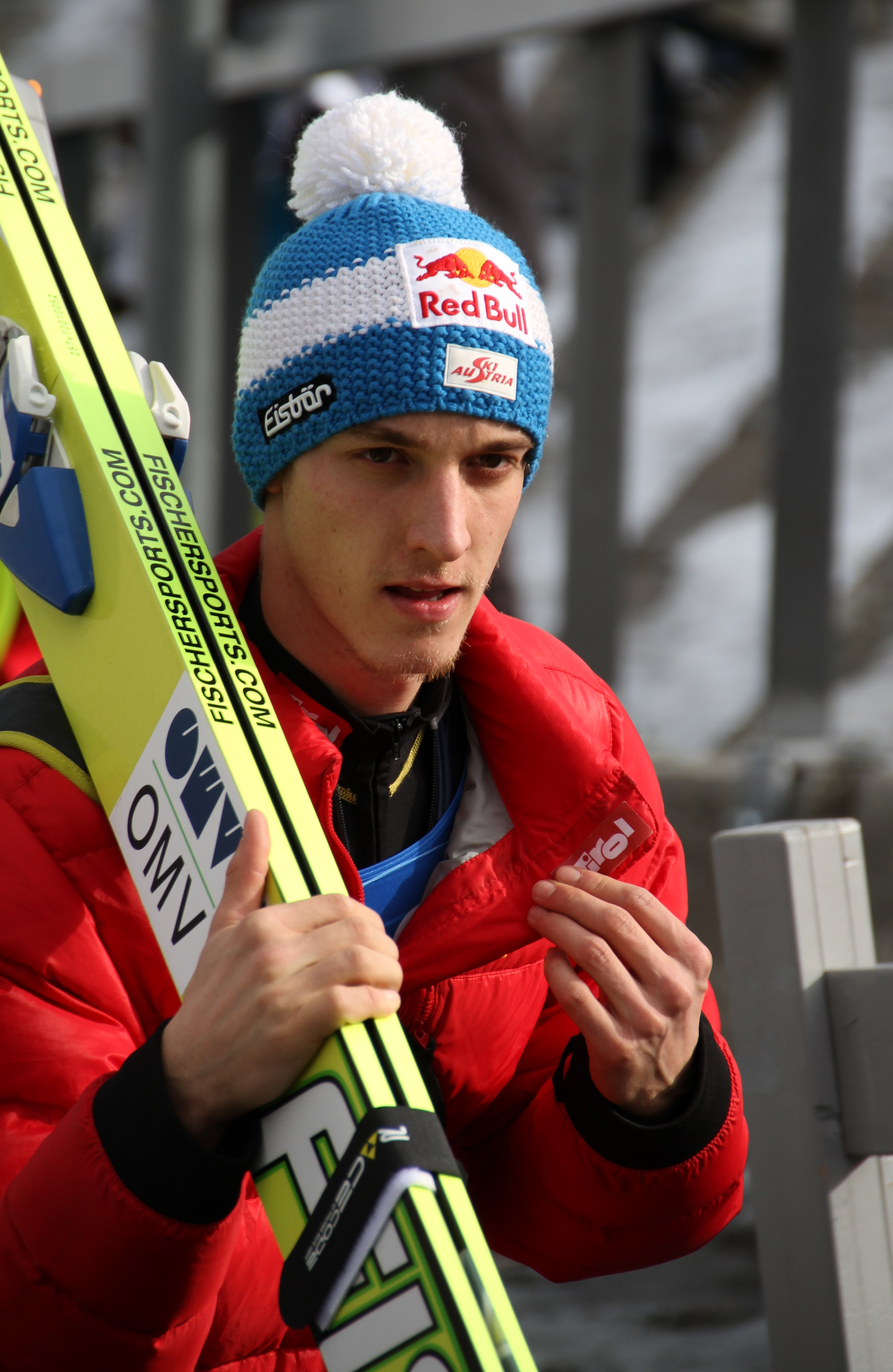 Holmenkollen World Cup March 11, 2012. Oslo, Norway.